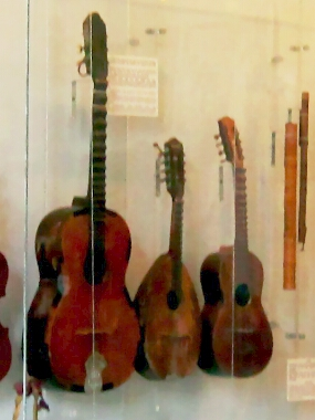 Vietnamese instruments with scalloped necks (extra wood removed between the frets marketing the spaces deep). From left a concave guitar, a mandolin or member of it's family, an instrument possibly an intermediary development between the mandolin and guitar.